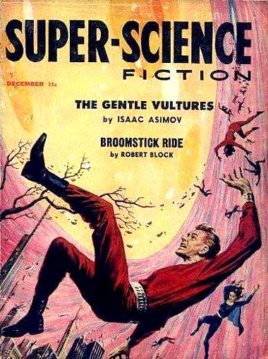 Cover of Super-Science Fiction, December 1957